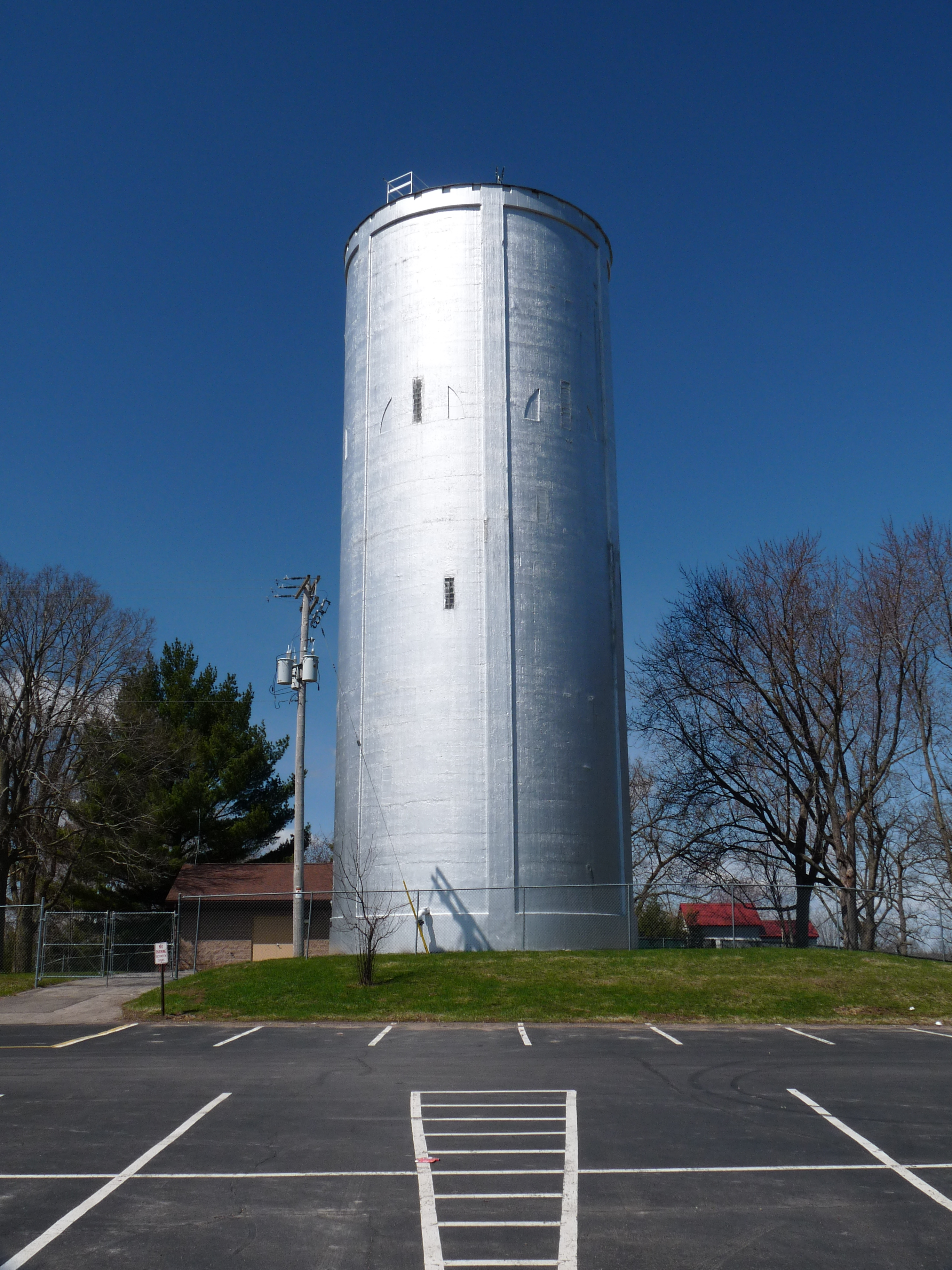 The Neillsville Standpipe is a small-town water tower at the highest point in town, built in 1926, consisting of a steel water tank made by the Pittsburgh-Des Moines Steel Co. encased in a 95 foot slip-form concrete tower built by Trierweiler Bros. of Marshfield. In 2013 it was placed on the National Register of Historic Places.